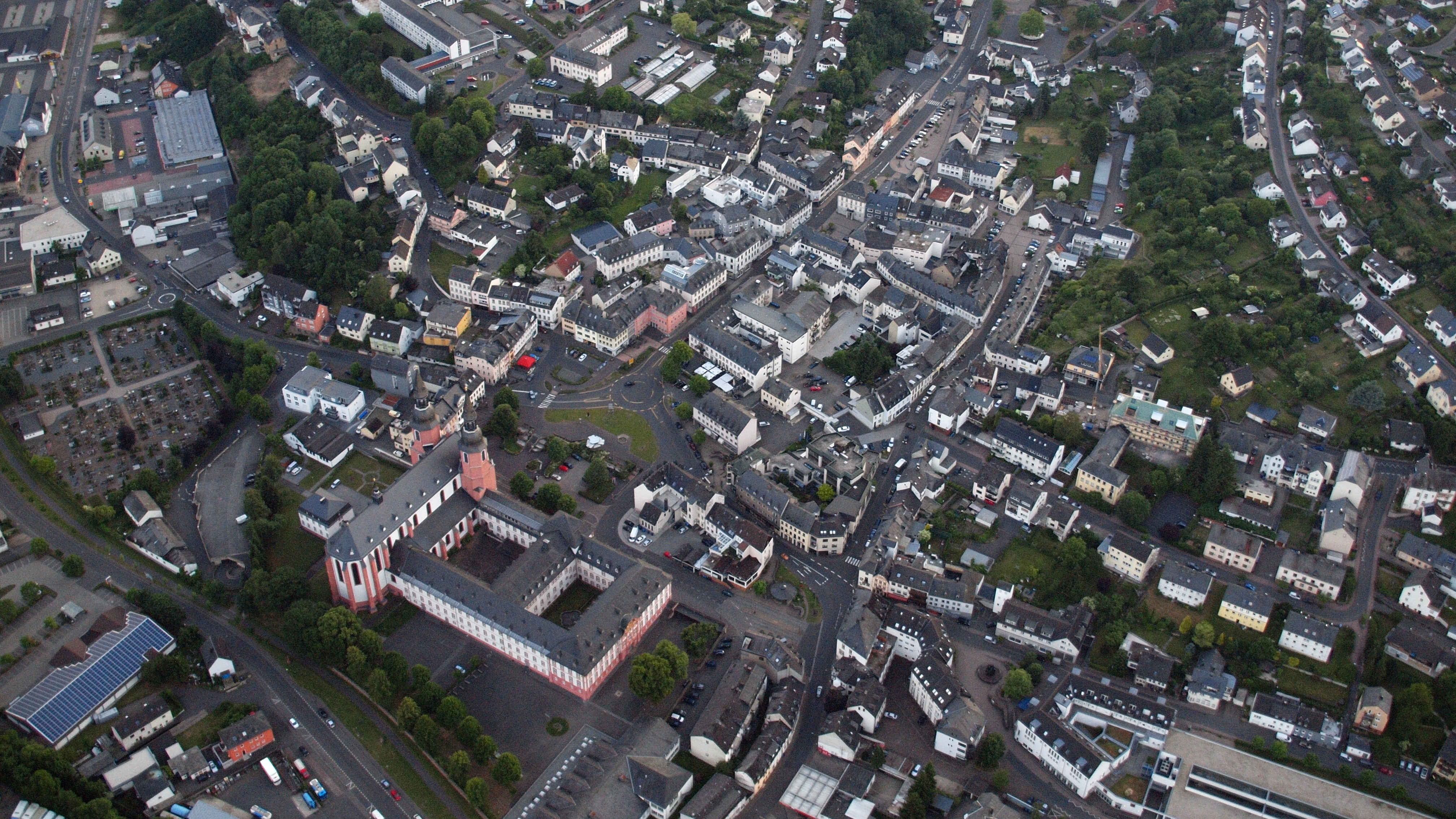 Prüm, Rhinland-Palatinate, Germany; Aerial photography, 2015